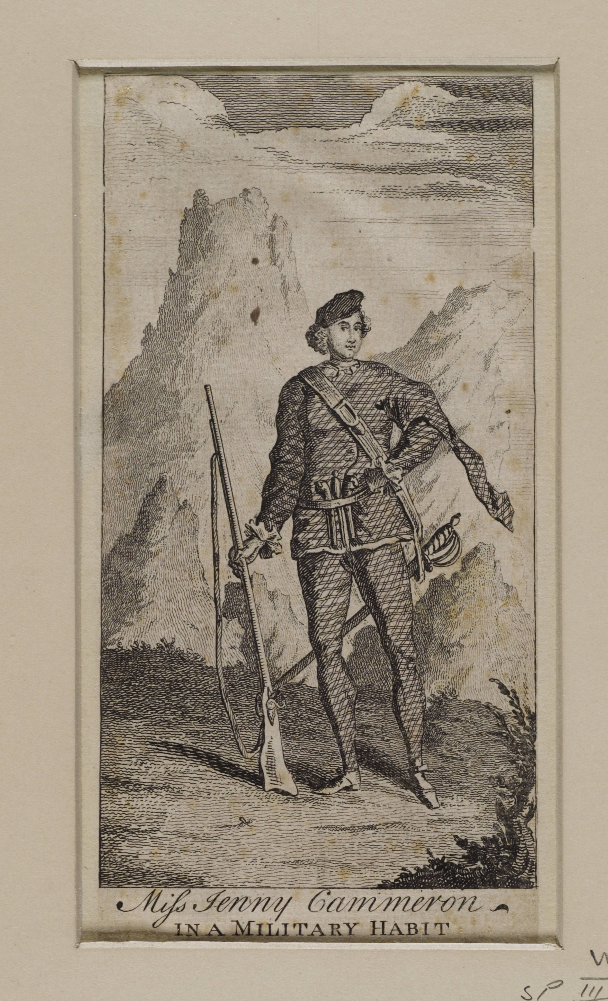 Jenny Cameron, c. 1700-1790. Adventuress, supporter of Charles Edward Stuart Picture of Jenny Cameron in tartan trousers and tunic, holding a gun in one hand. Sword through belt, with highland scenery in background.